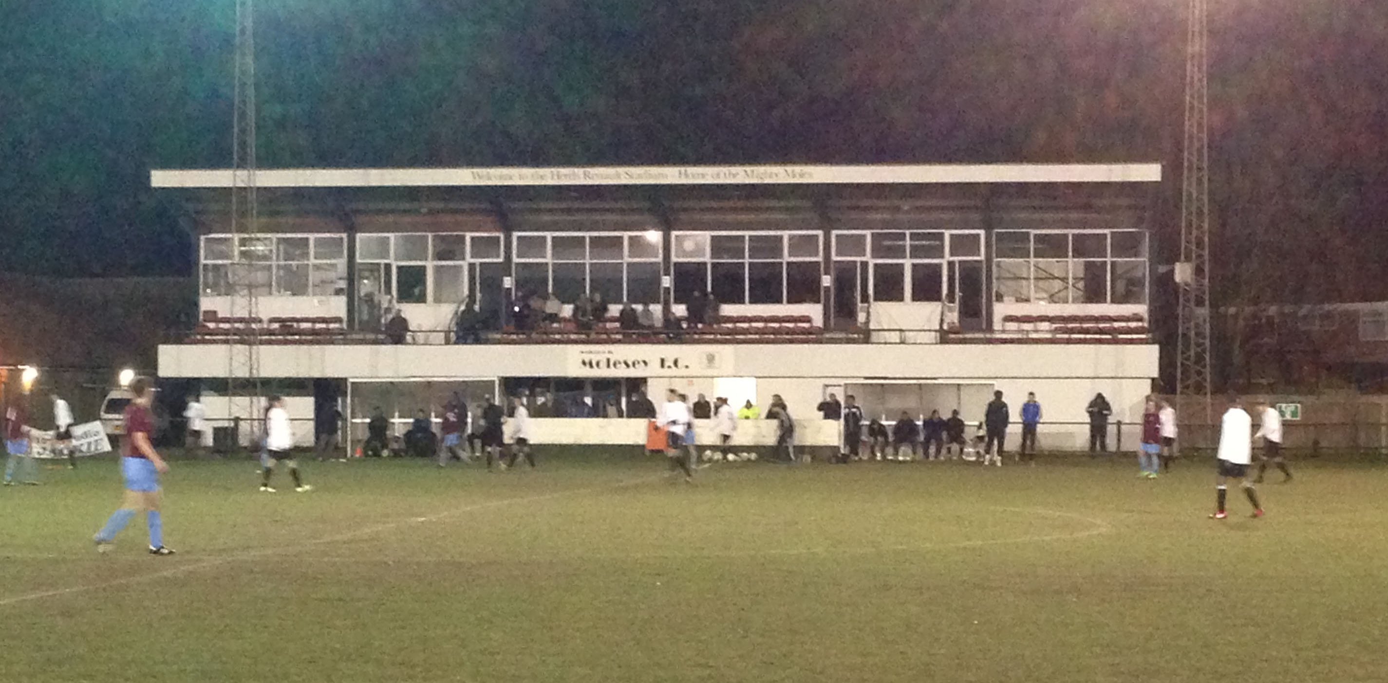 Walton Road Stadium, home of Molesey FC